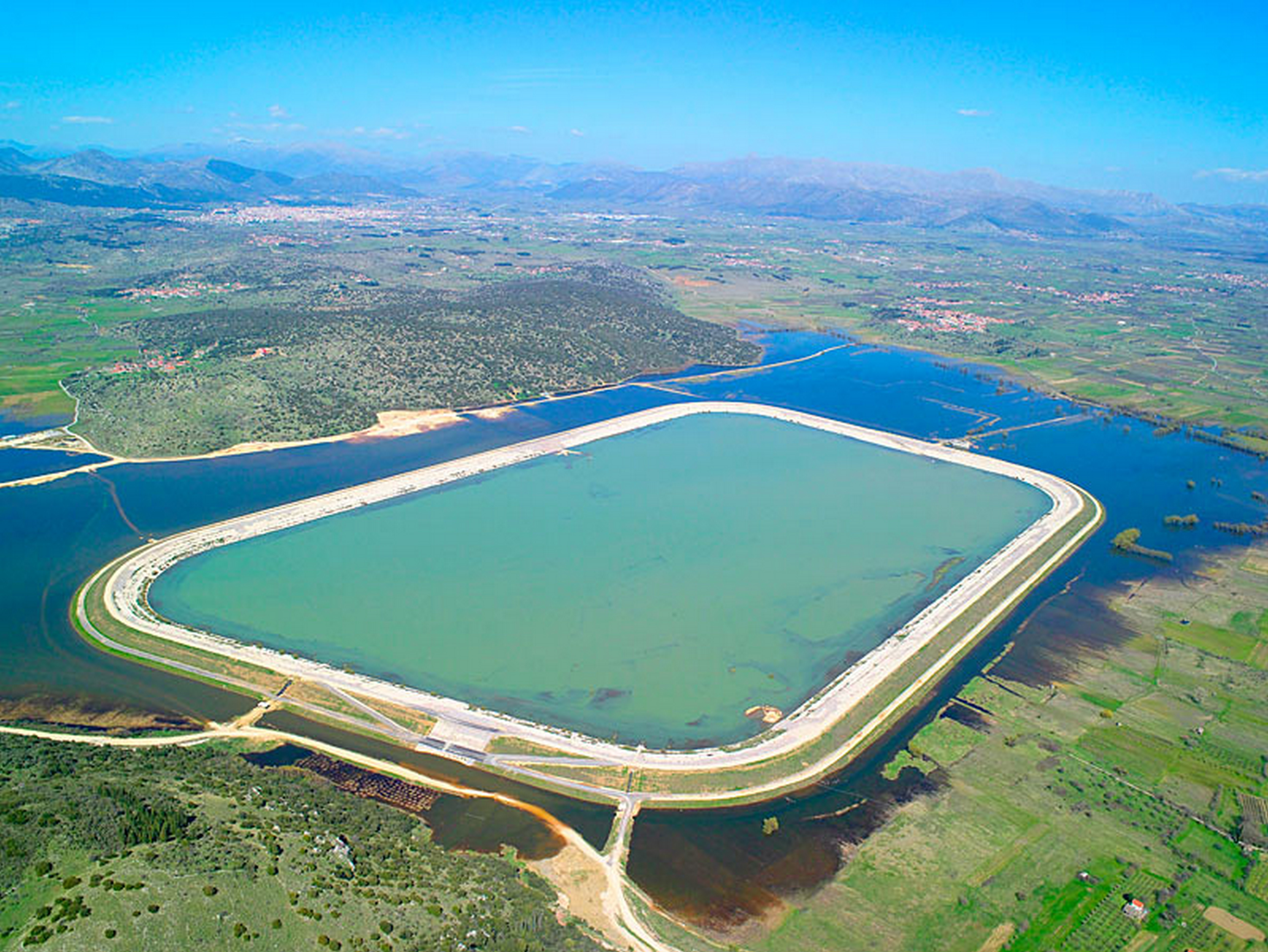 Lake Taka from a high altitude